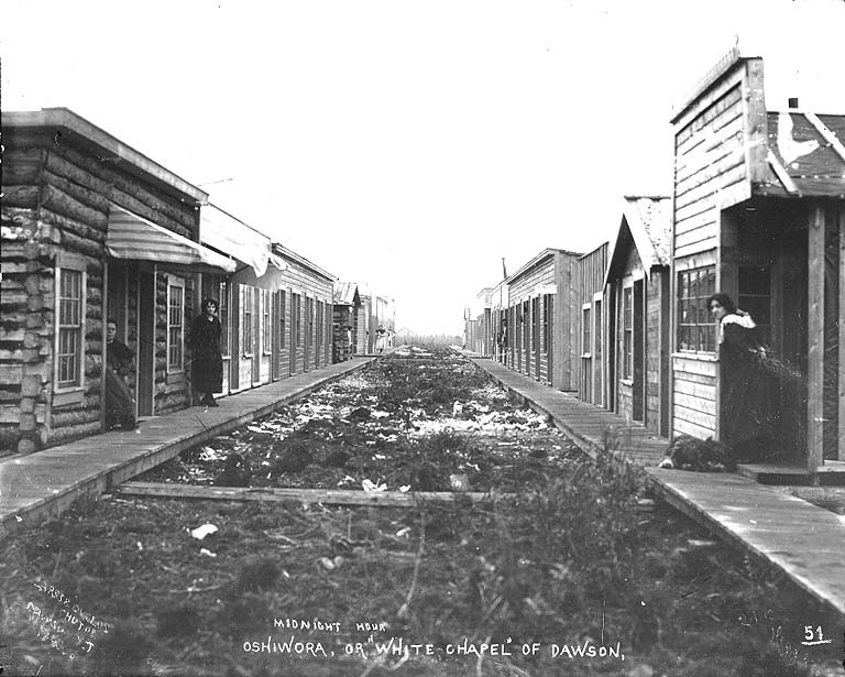 Otherwise known as "Lousetown", "Oshiwora" or "White Chapel" . Caption on image: "Midnight hour. Oshiwora or "White Chapel" of Dawson" Original photograph by Eric A. Hegg 2442; copied by Larss and Duclos Klondike Gold Rush. Subjects (LCTGM): Prostitution--Yukon--Dawson; Brothels--Yukon--Dawson; Log buildings--Yukon--Dawson